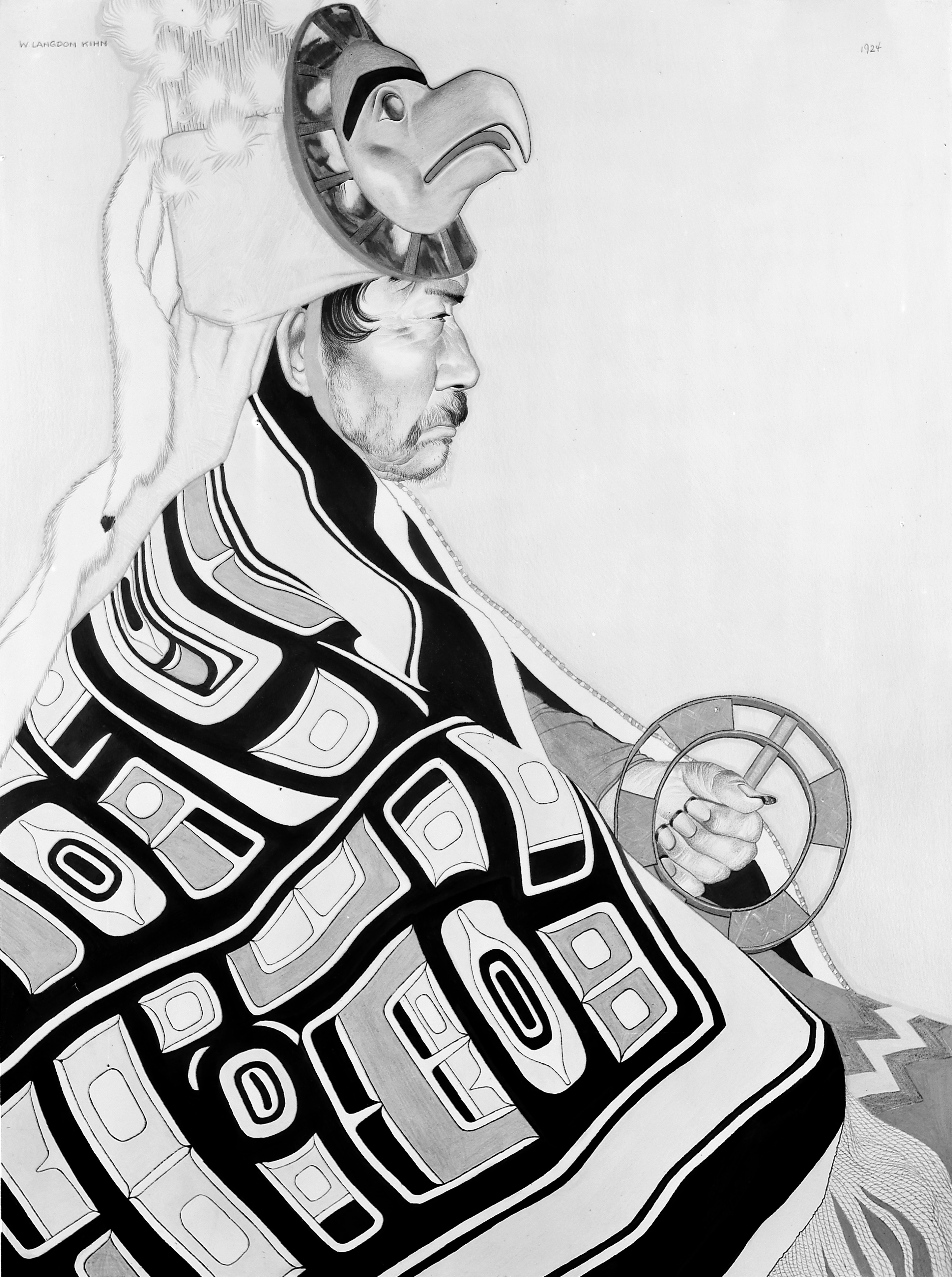 Portrait of Sem-Medeeks of Gitinanga, British Columbia Wellcome Images Keywords: Wilfred Langdon Kihn